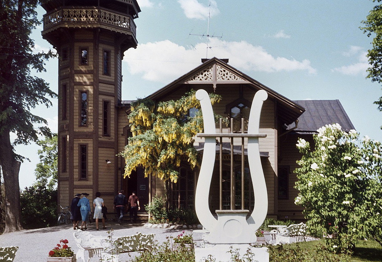 FOTOGRAFIVilla Lyran från söder. 1977-1977FOTOGRAF: Okänd.BILDNUMMER: DIA 26135Stadsmuseet i Stockholm